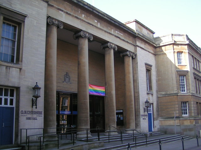 Main entrance to Shire Hall — Westgate Street, Gloucester. Neoclassical building by Robert Smirke.